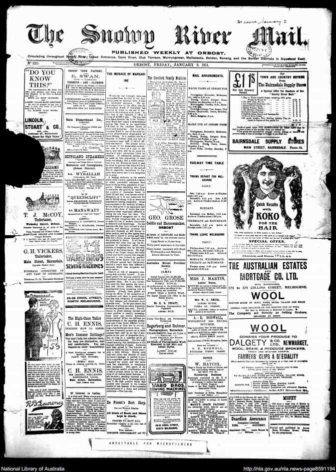 Front page of the Snowy River Mail newspaper on 9 January 1914